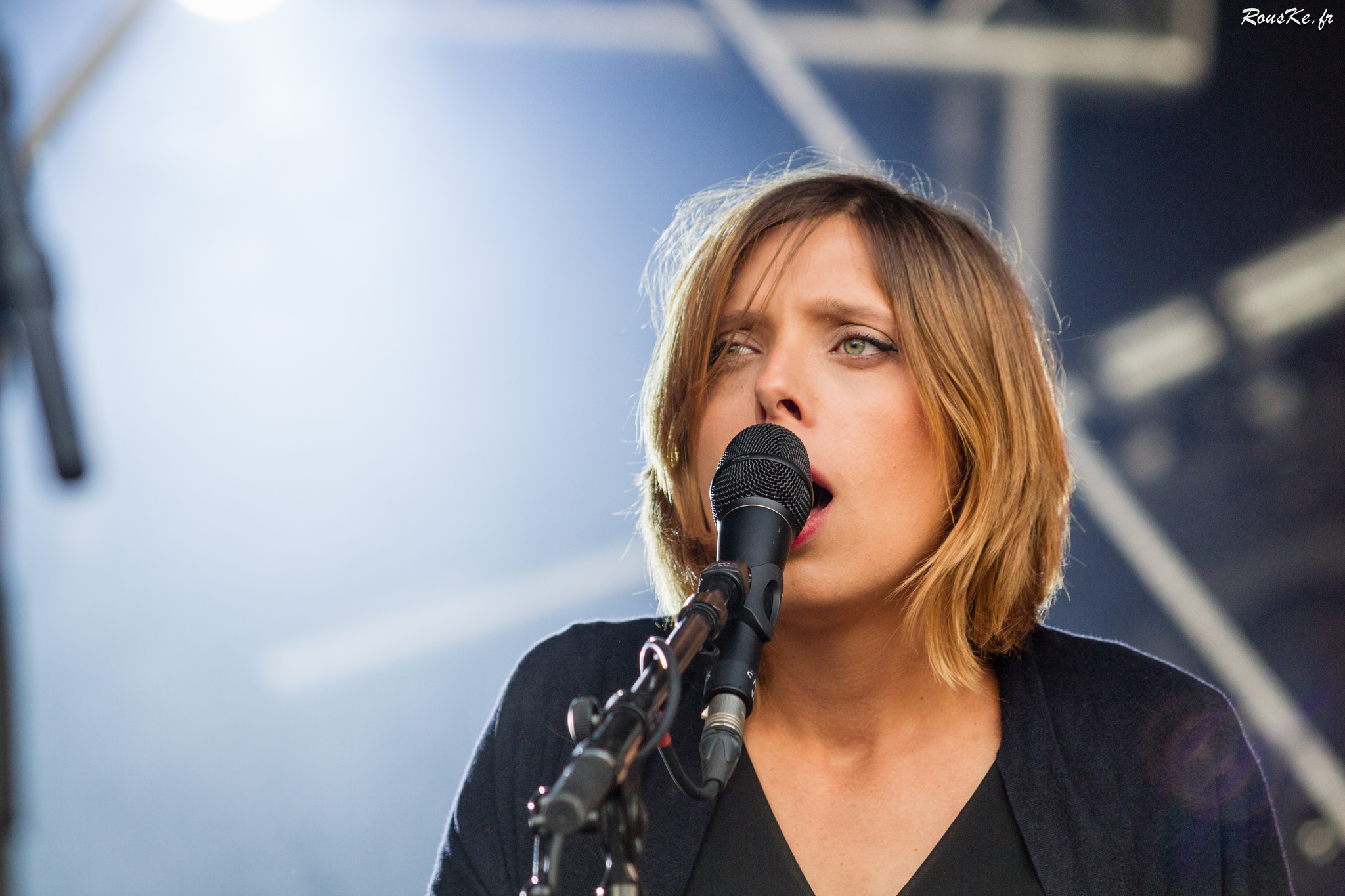 Cats on Trees singer on Ouifm Soirs d'été festival 2014